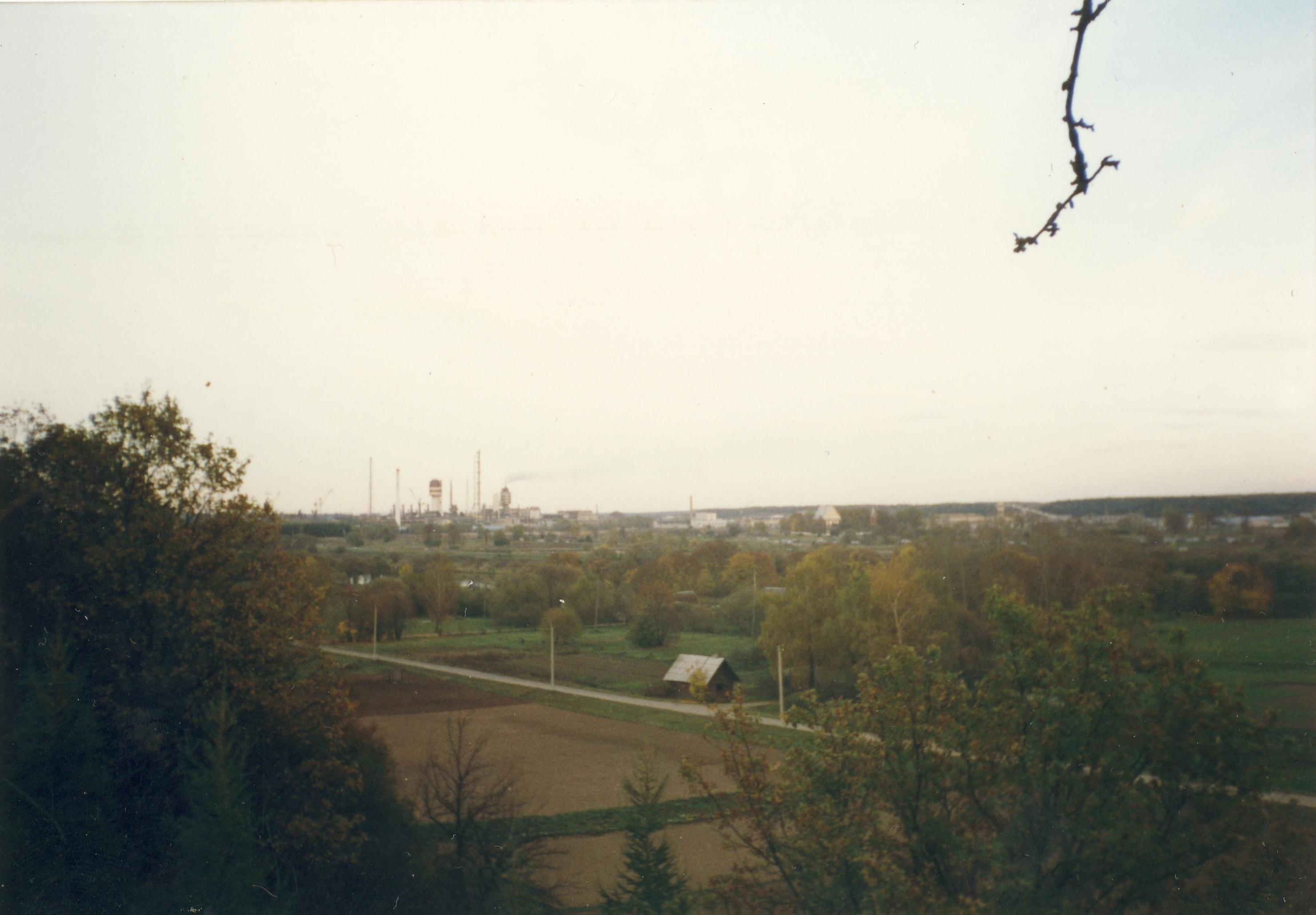 tolumoje - AB "Achema"